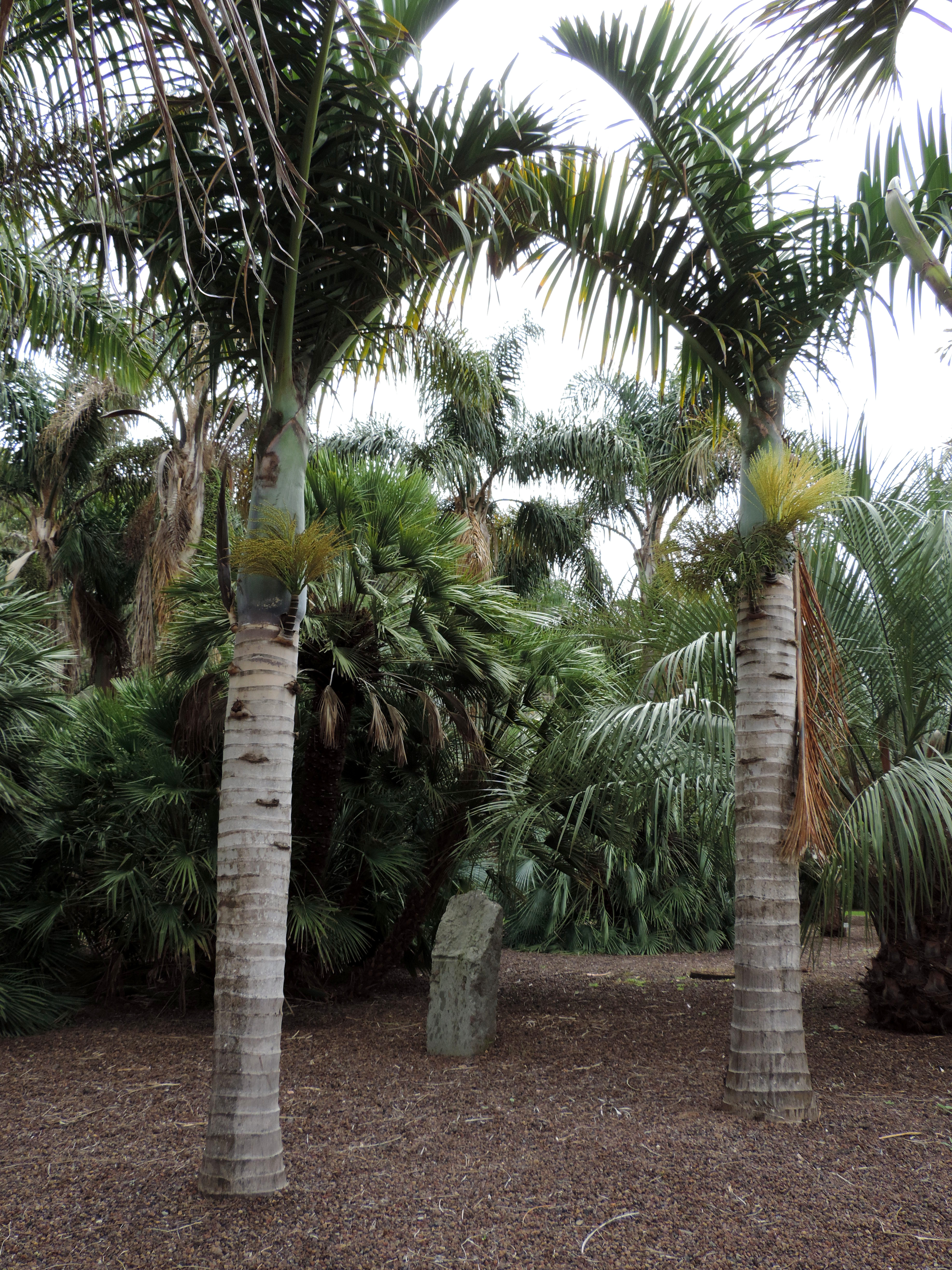 Hyophorbe verschaffeltii in Jardín Botánico Canario Viera y Clavijo, Gran Canaria